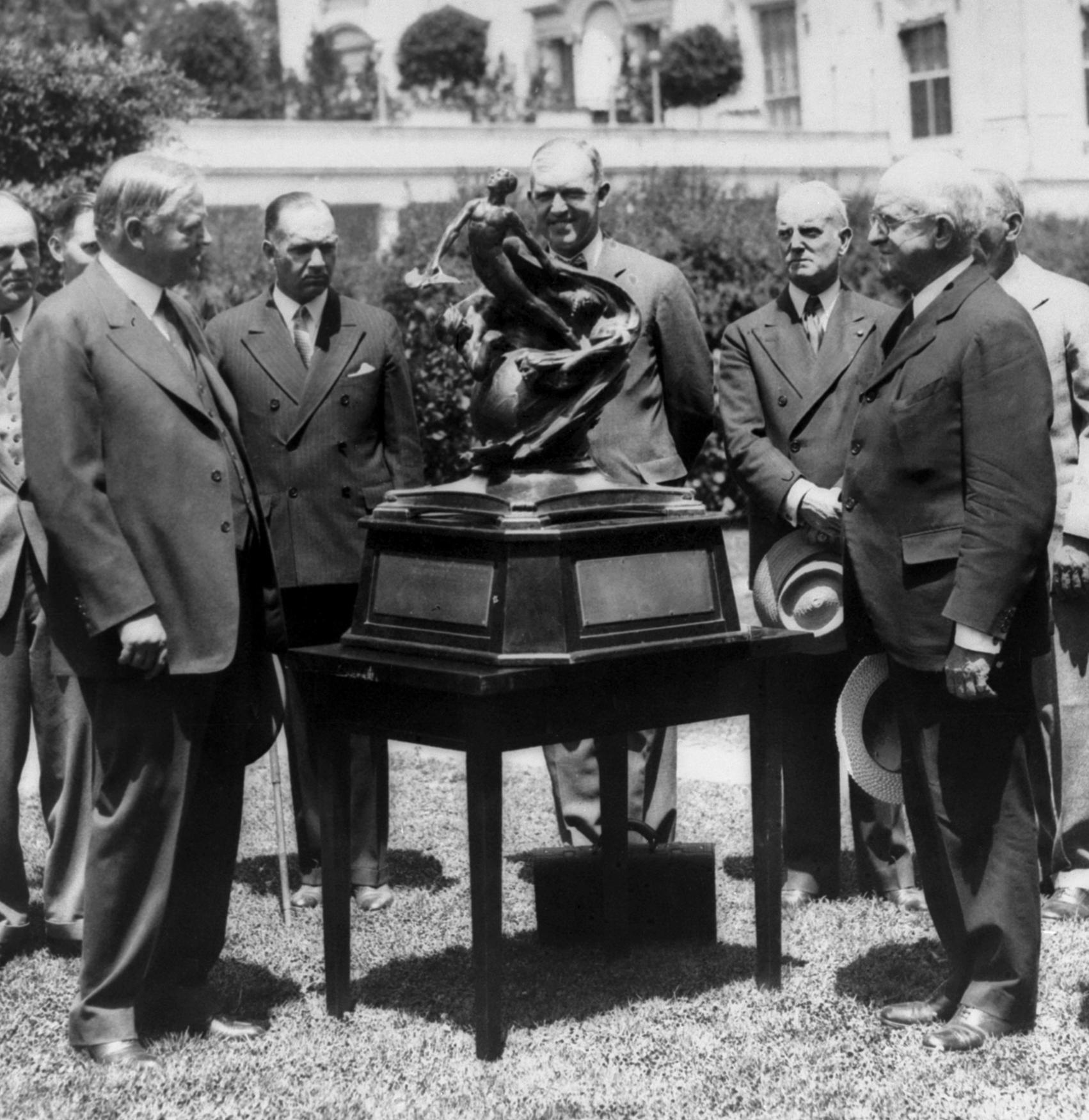 President Herbert Hoover presents the Collier Trophy to Joseph Ames, chairman of the NACA in 1929. Three years later, as part of his plan to increase efficiency in government, Hoover would sign an executive order to abolish the NACA.